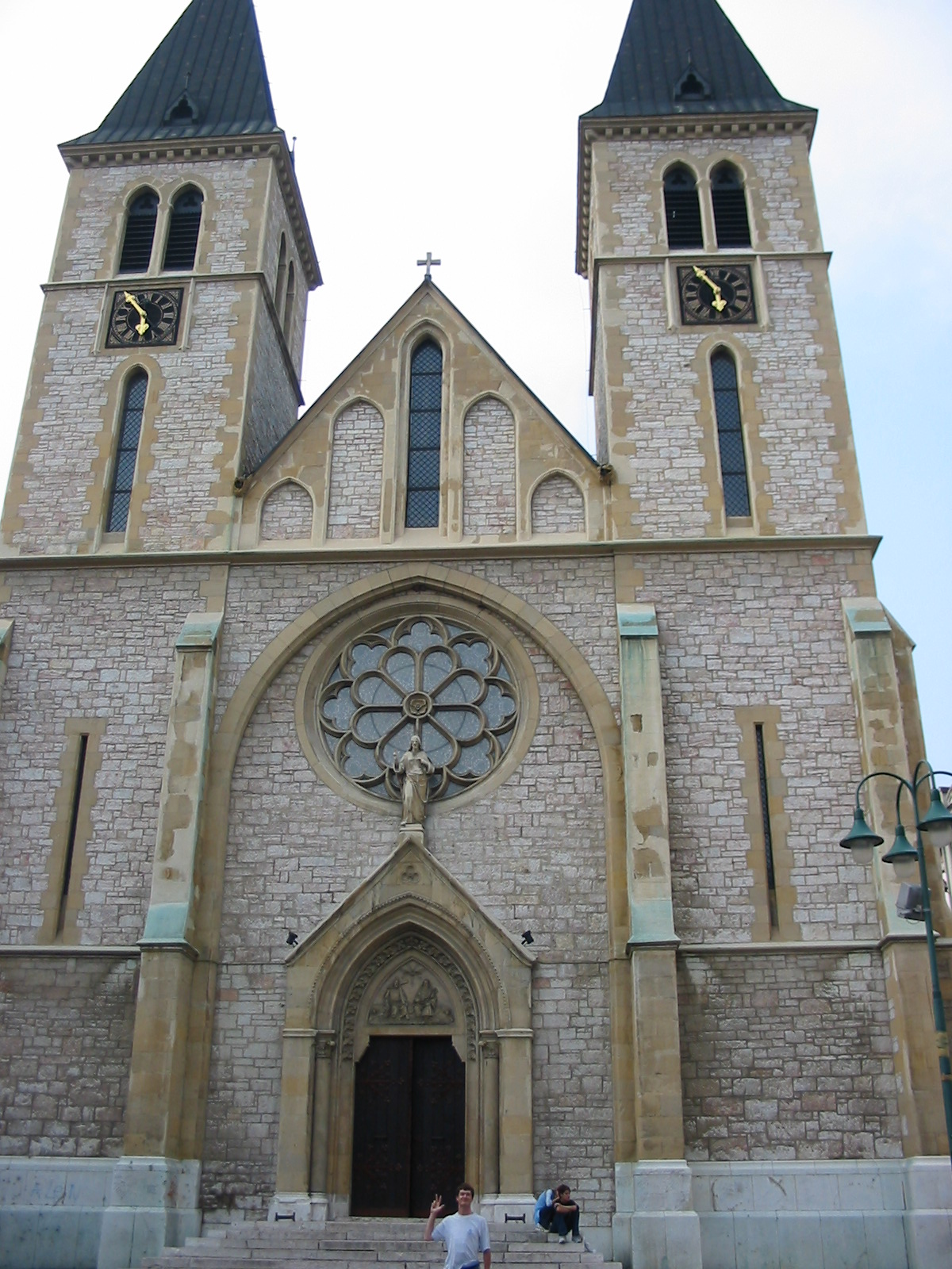 Sarajevo Catholic church